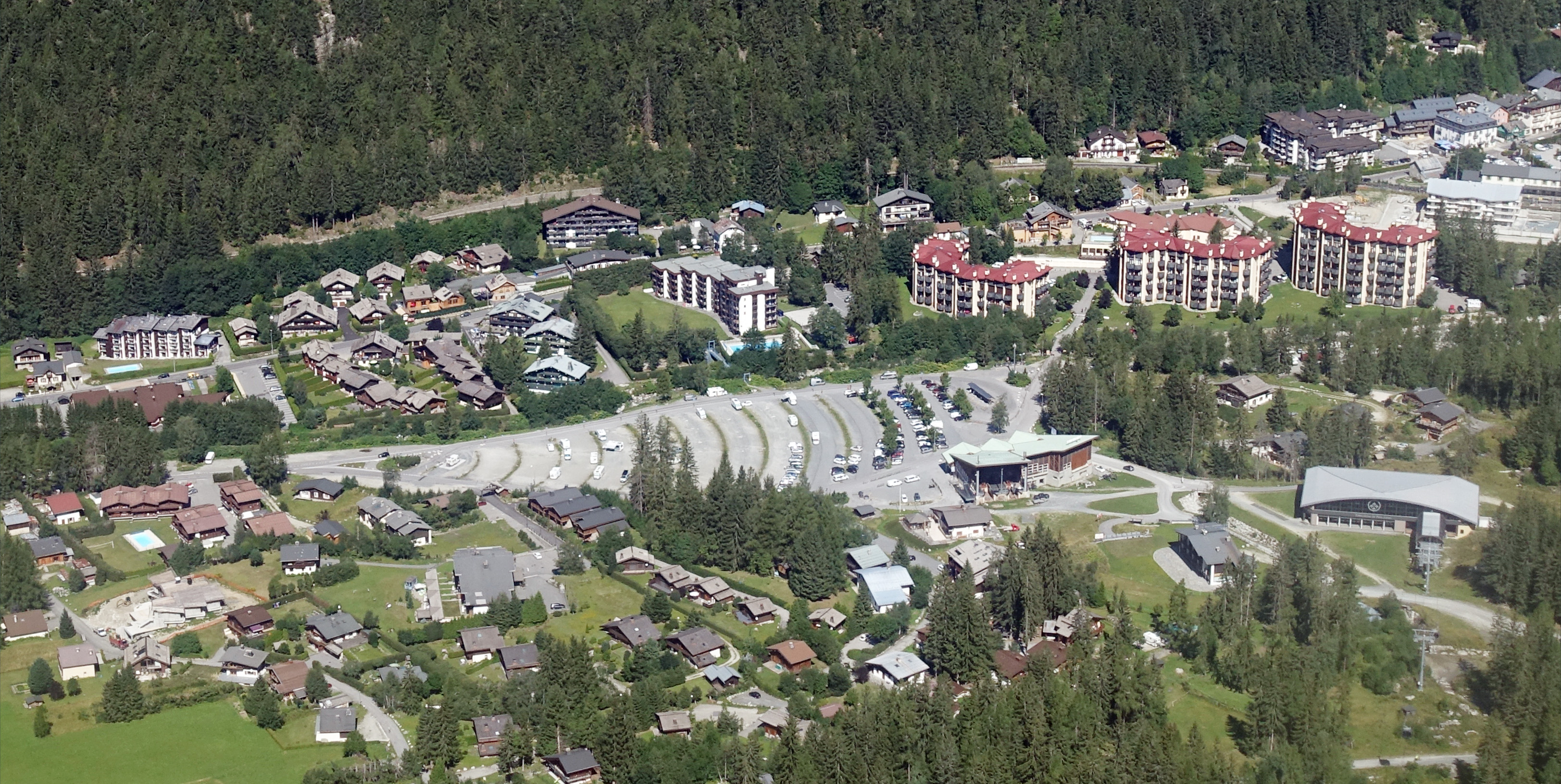 Argentière village, Chamonix, France.